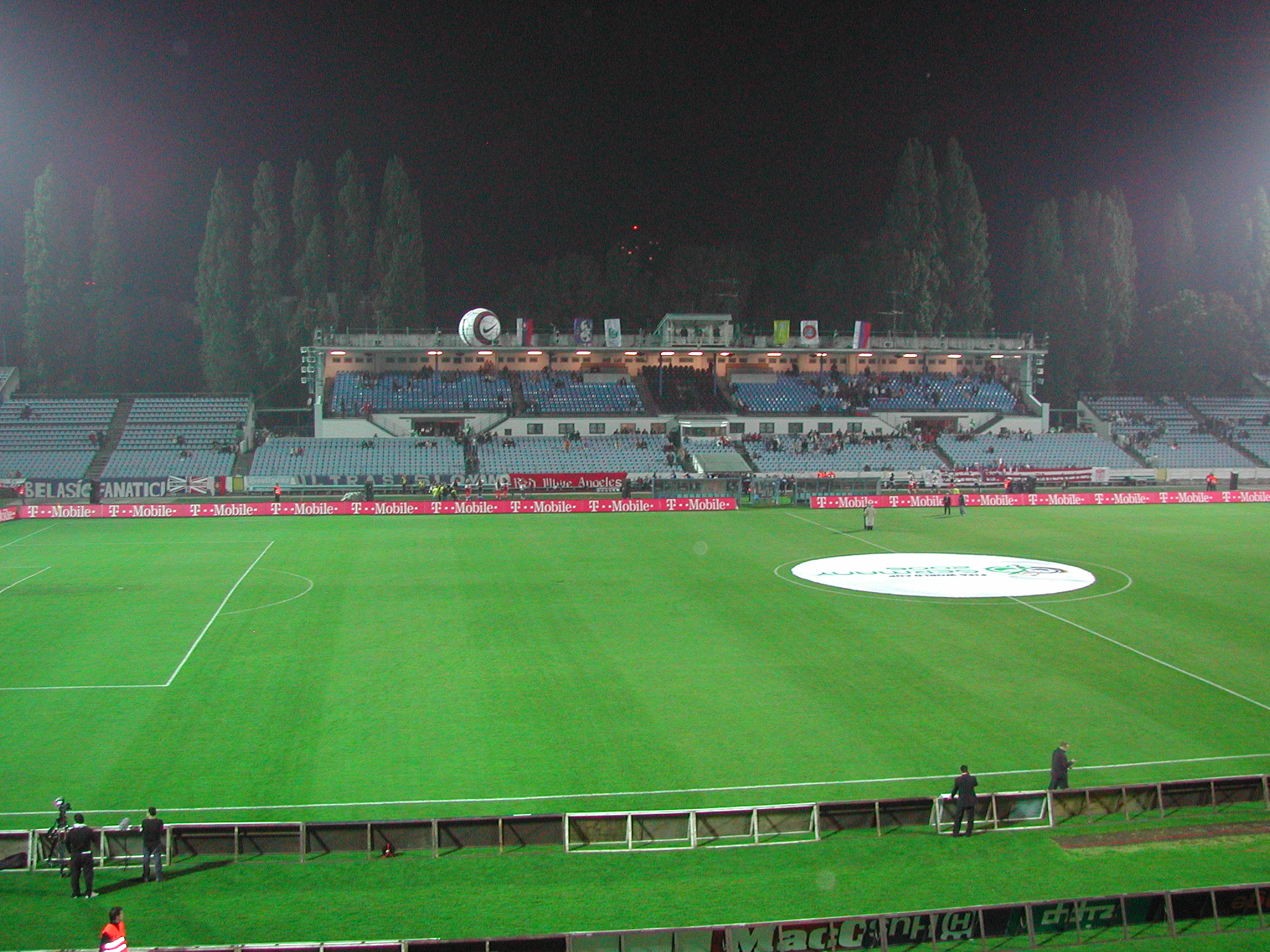 This picture shows the pitch and the a stand of Tehelné pole, a football ground in Bratislava, Slowakia.